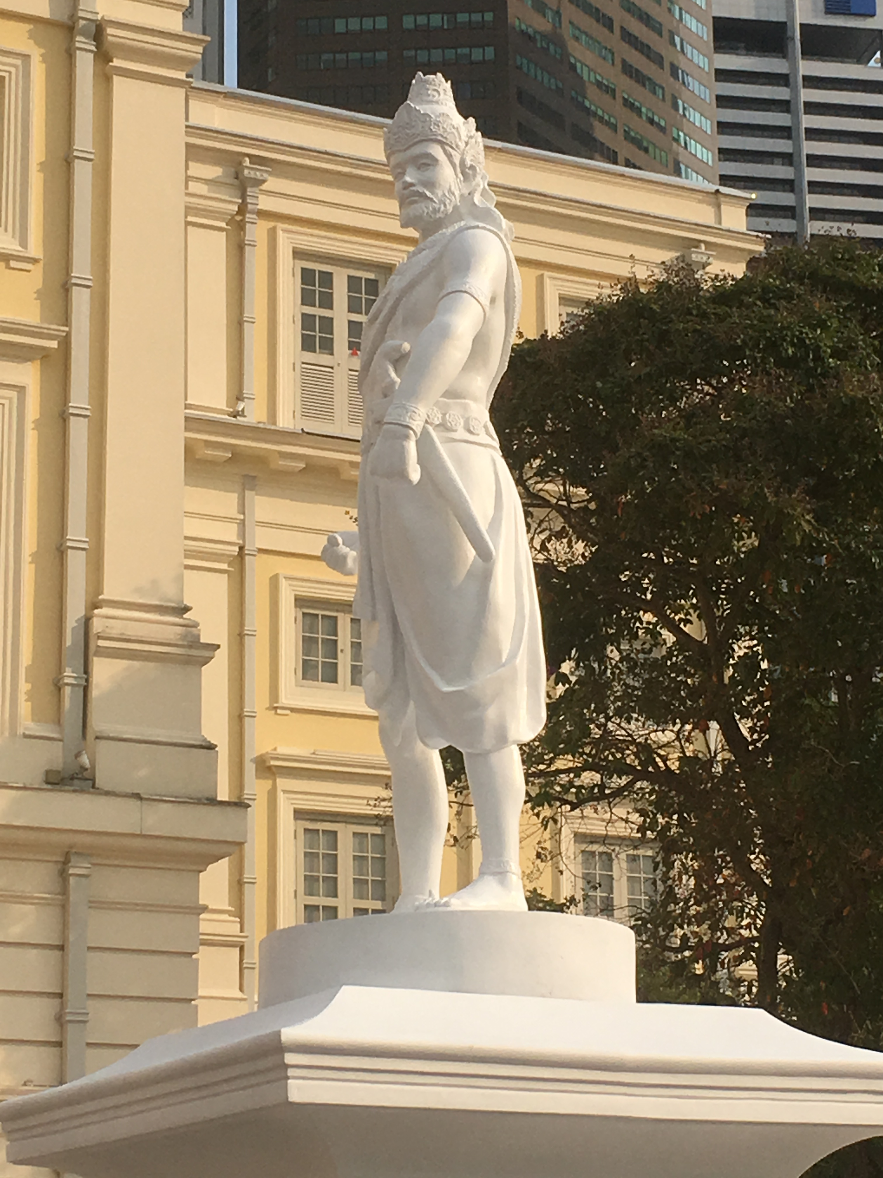 Statue of Sang Nila Utama, a pseudo-legendary Prince from Palembang who supposedly founded the Kingdom of Singapura in 1299, erected at the Raffles Landing Site as part of events commemorating the bicentennial of Singapore's colonisation by the British East India Company at the hands of Sir Sir Stamford Raffles. Full-length 3/4 view, with the Asian Civilisations Museum in the background.